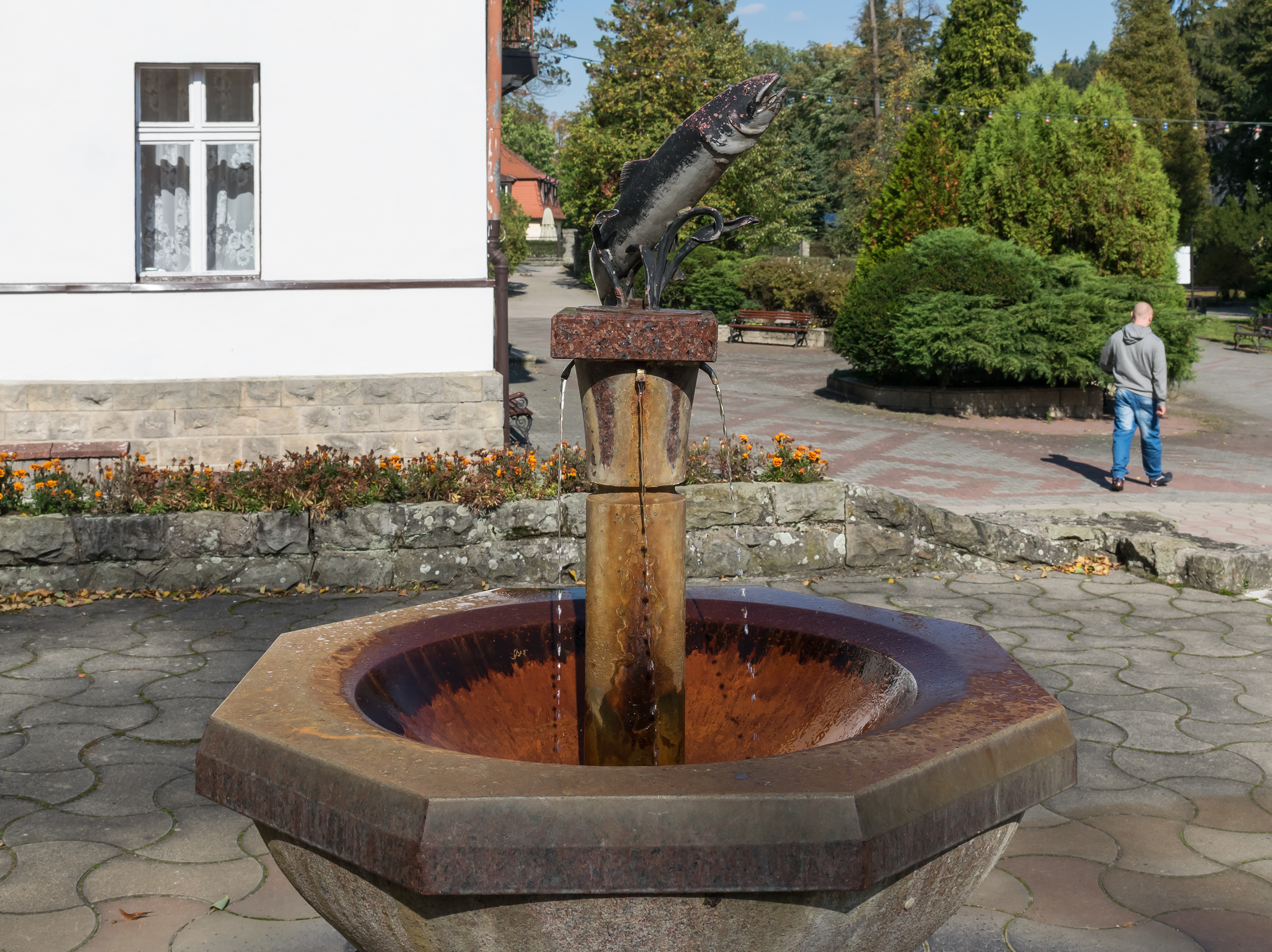 Spa Park in Długopole-Zdrój Wikidata has entry Q30046544 with data related to this item.